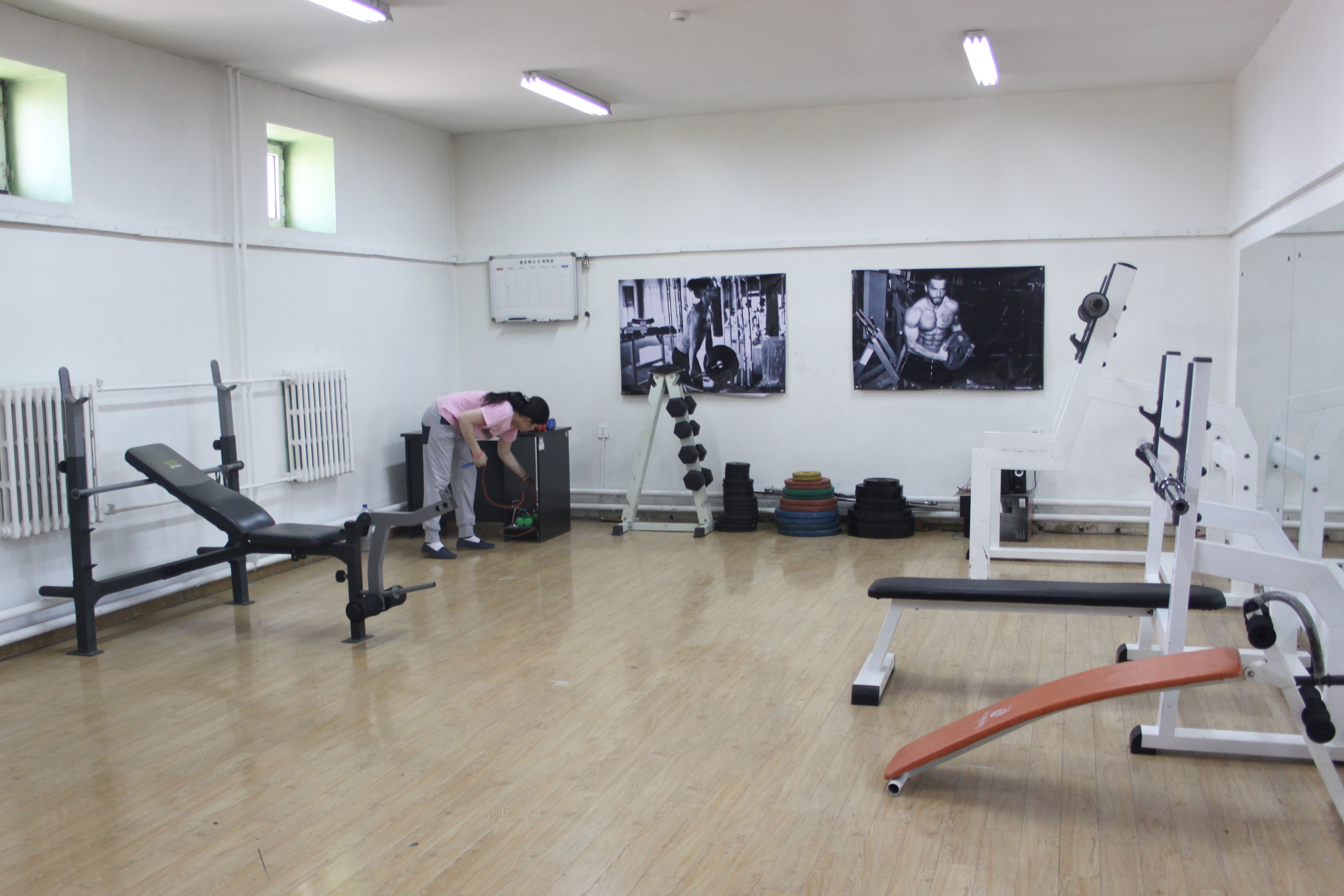 MIU Student Gym